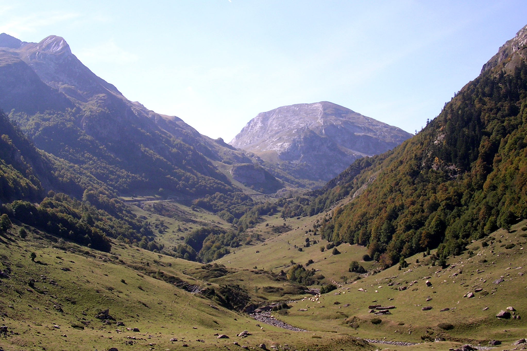 Ossau Valley (France, Pyrénées-Atlantiques)